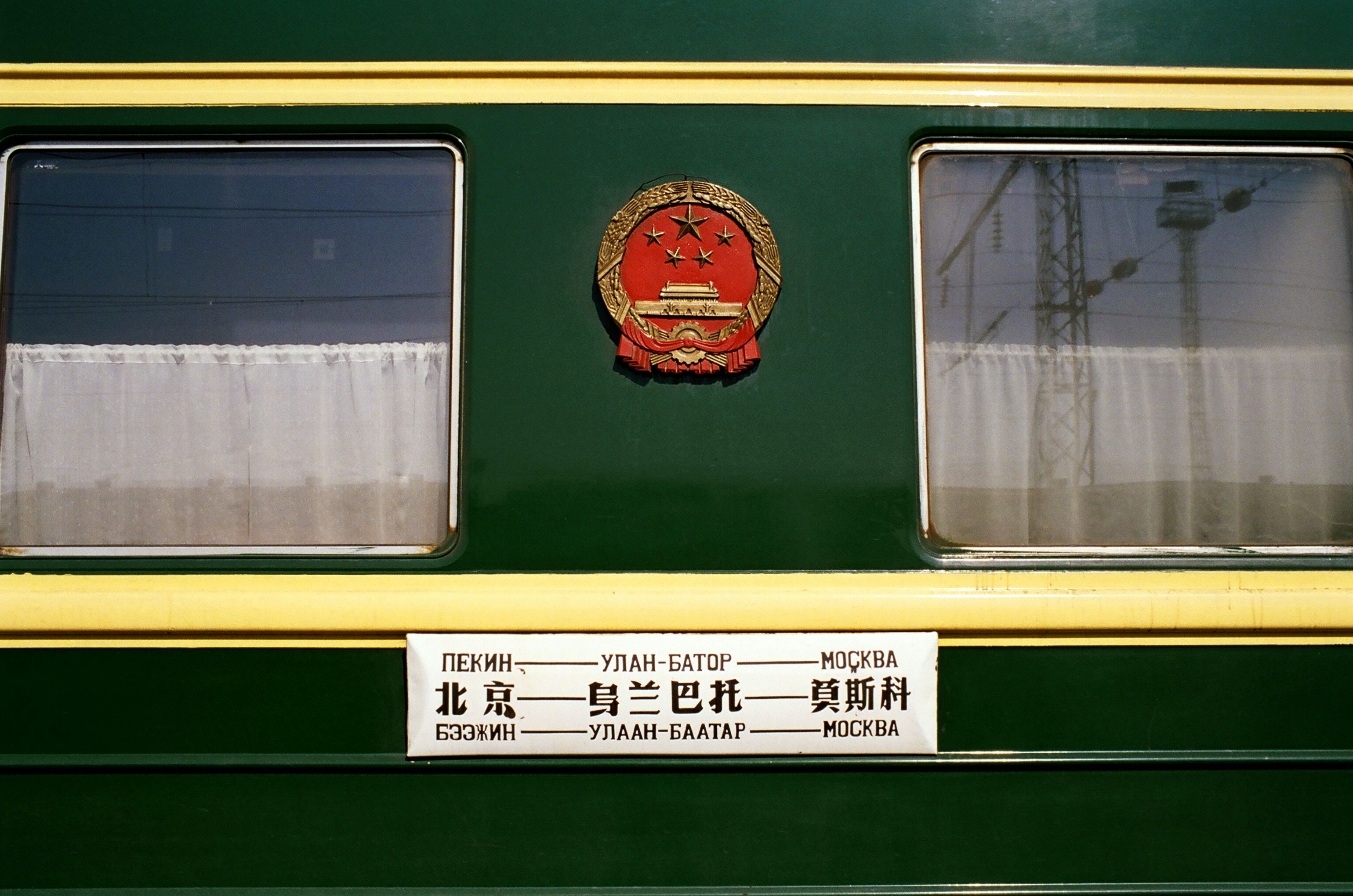 Beijing-Ulaan Baatar-Moscow Train Information board